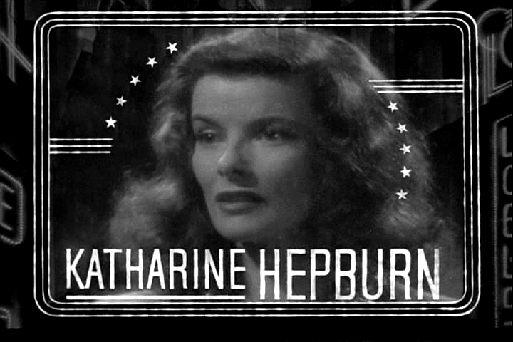 Philadelphia Story